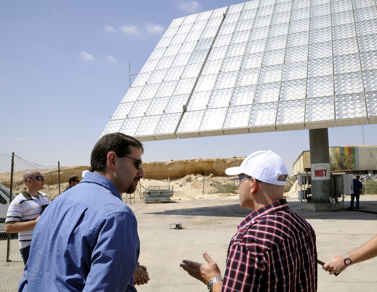 U.S. Ambassador to Israel Dan Shapiro visited the southern Israeli city of Arad, where he met with Mayor Tali Ploskov, and other city officials. The city of Arad hosted the ambassador for a “Town Hall” meeting, where he spoke with local residents and answered their questions. He toured the Neradim Village, a boarding school for in-danger youth, the MST solar power plant, and ended with a traditional Bedouin lunch at Kfar Nokdim.